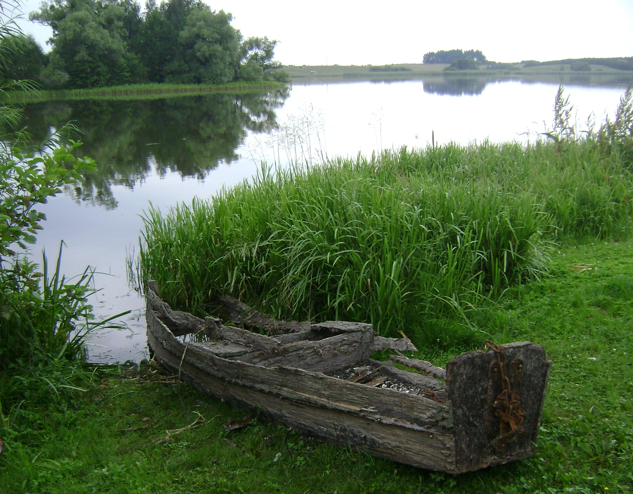 Pasym. Kalwa Lake